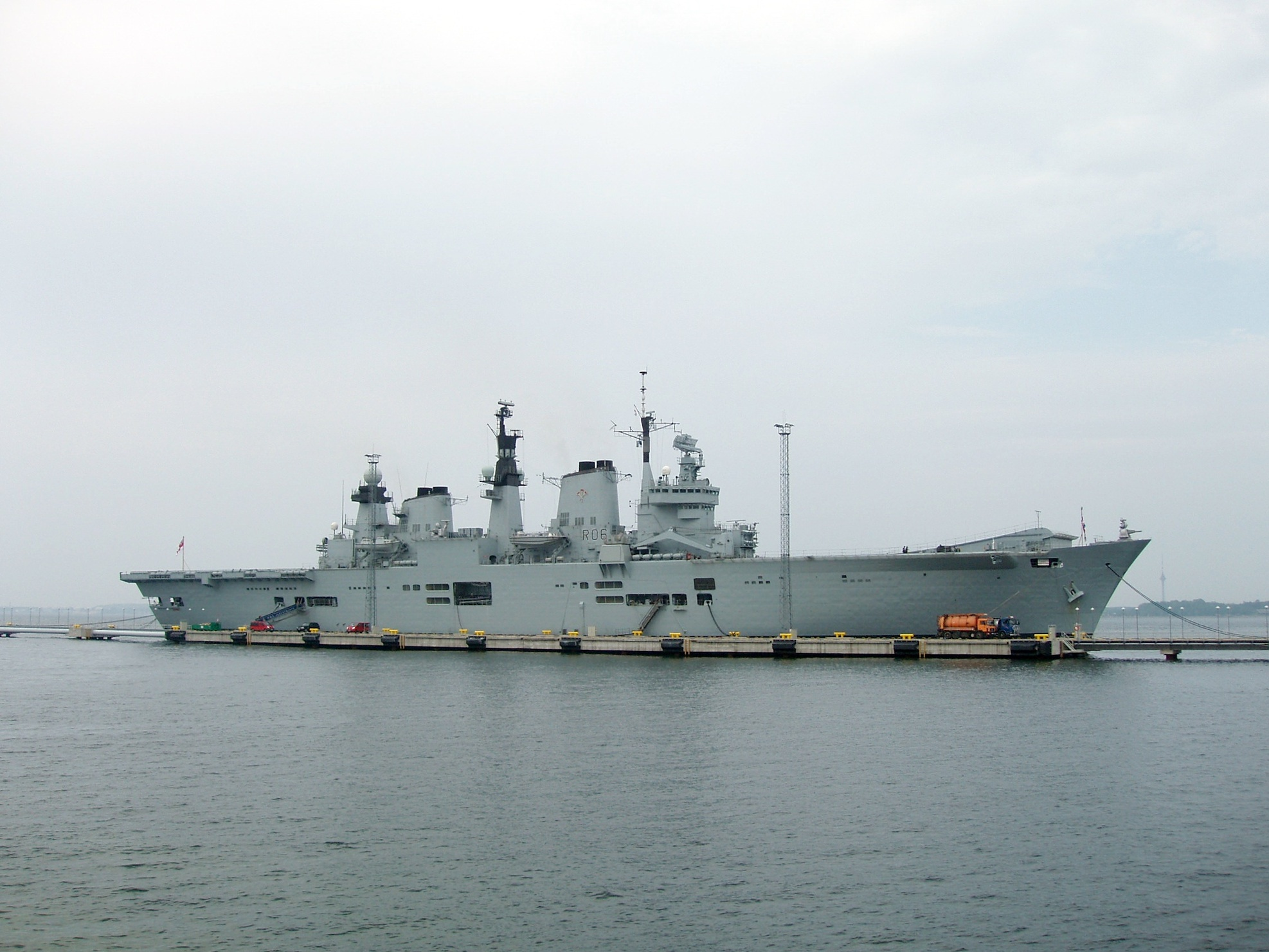 The fifth HMS Illustrious (R06) Invincible-class light aircraft carrier of the Royal Navy in Tallinn, Estonia.